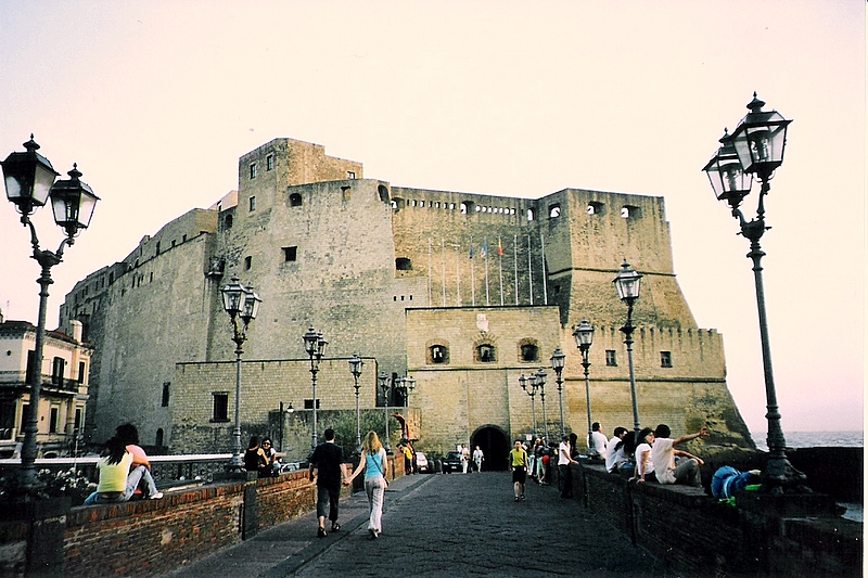 Castel dell'Ovo, in Naples